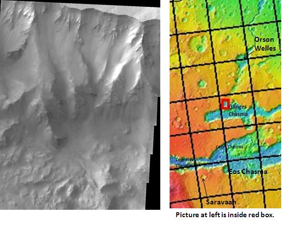 Ganges Chasma, as seen by THEMIS. The location is 6.4 degrees south latitude and 310.7 degrees east longitude. Image is about 18 km wide.